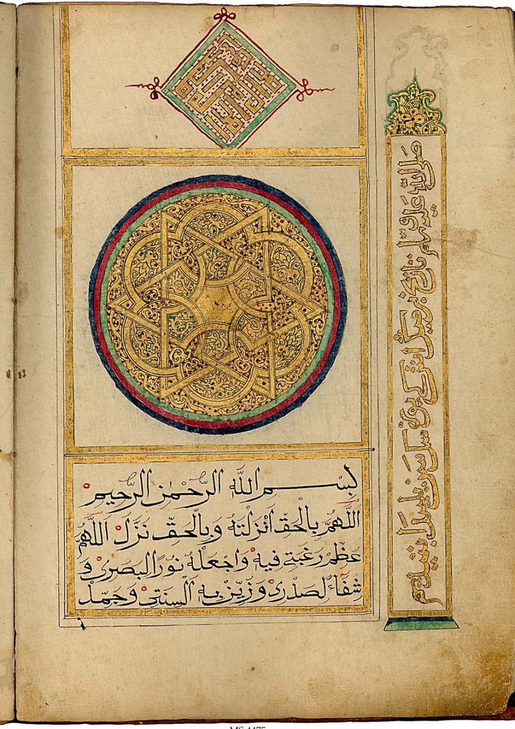 Manuscript in Arabic on paper, China, late 16th to early 17th c., 30 vols. (complete) 50-60 ff. per vol., 20x28 cm, single column, (13x17 cm), 5 lines in a regional muhaqqaq book script, sura headings in gold on a dark blue ground with red ruling and frame, verses separated by gold rosettes, opening and closing double-page illumination for each volume with knotwork and arabesque panelling in gold and colours, frontispiece with 2 circles containing geometrical pattern of interlocking triangles and circles with diamonds containing the profession of faith above in Kufic book script, and 2 vertical lines of text in gold thuluth book script. Binding: China, late 16th to early 17th c., blind-stamped leather with octagonal central medallion formed like a flower, flanked at top and bottom by 2 tear-drop motifs with verses from the Qur'an, with flap, sewn on 3 cords. Context: For 10 volumes of a Qur'an from ca. 1300 in contemporary bindings, see MS 4468. Provenance: 1. Sam Fogg, London.